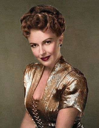 A promotional shot of actress Frances Gifford (1920 – 1994)